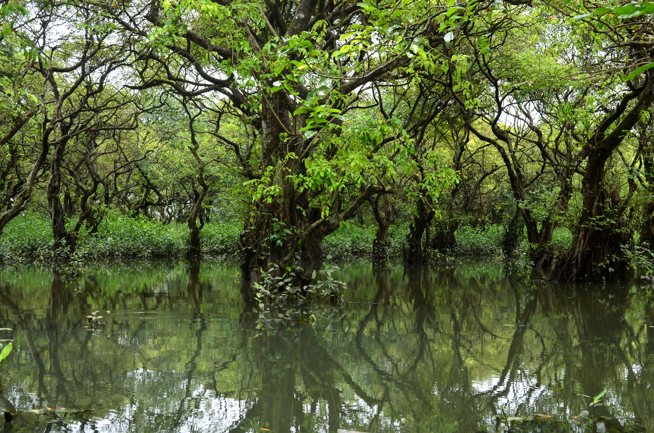 Ratargul Swamp Forest is the only swamp forest located in Bangladesh and one of the few fresh water swamp forest in the world